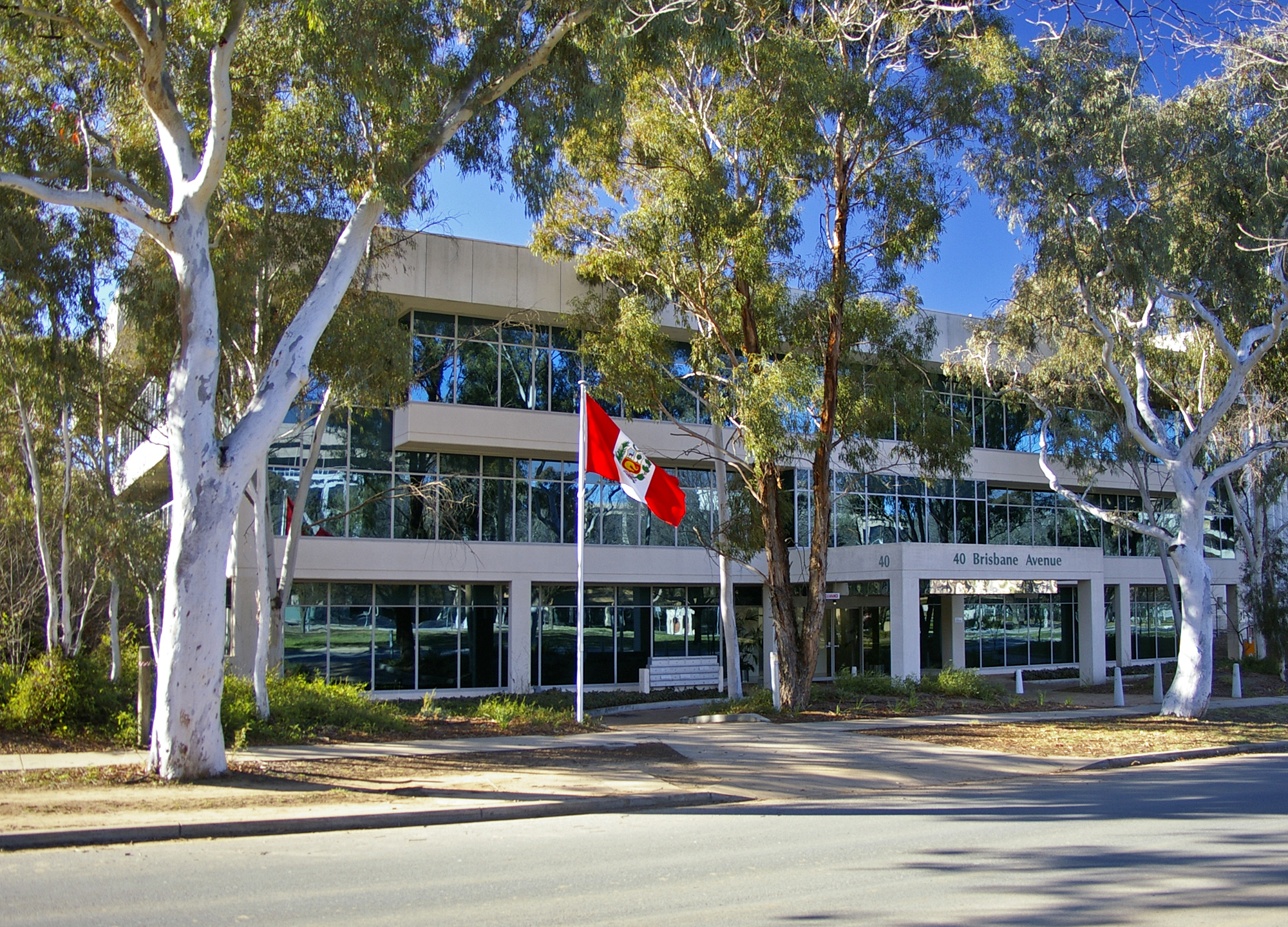 Peru Embassy located in the Canberra suburb of Barton, Australian Capital Territory